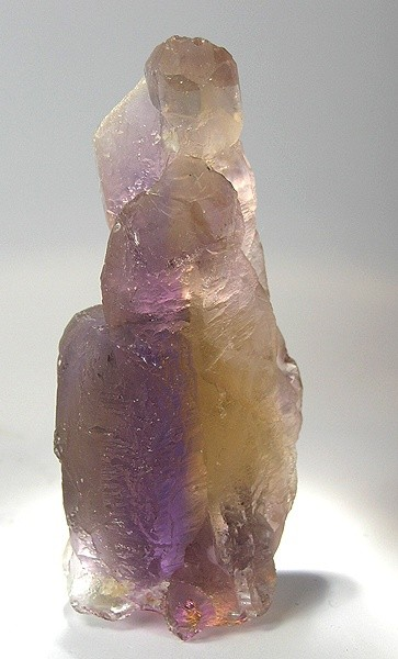 Quartz (Var.: Ametrine) Locality: Anahí Mine (Anay Mine; Anai Mine), La Gaiba District, Sandoval Province, Santa Cruz Department, Bolivia (Locality at ) Size: 7.4 x 3.3 x 2.9 cm. A floater crystal of "ametrine" quartz from Bolivia - combining the golden citrine hue with purple amethystine hue. These crystals are naturally etched into these weird forms. This one actually is euhedral with some glassy faces at one end, which is unusual.